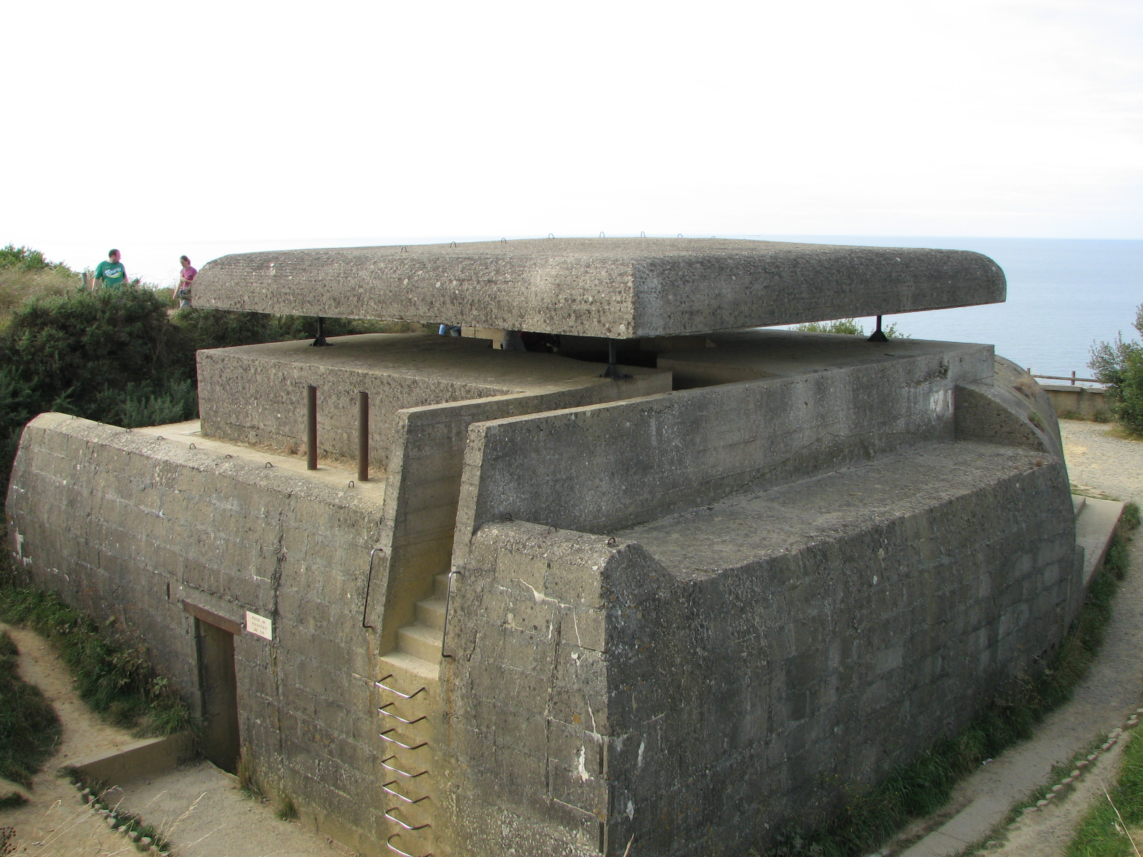 Poste de tir de la batterie de Longues-sur-Mer